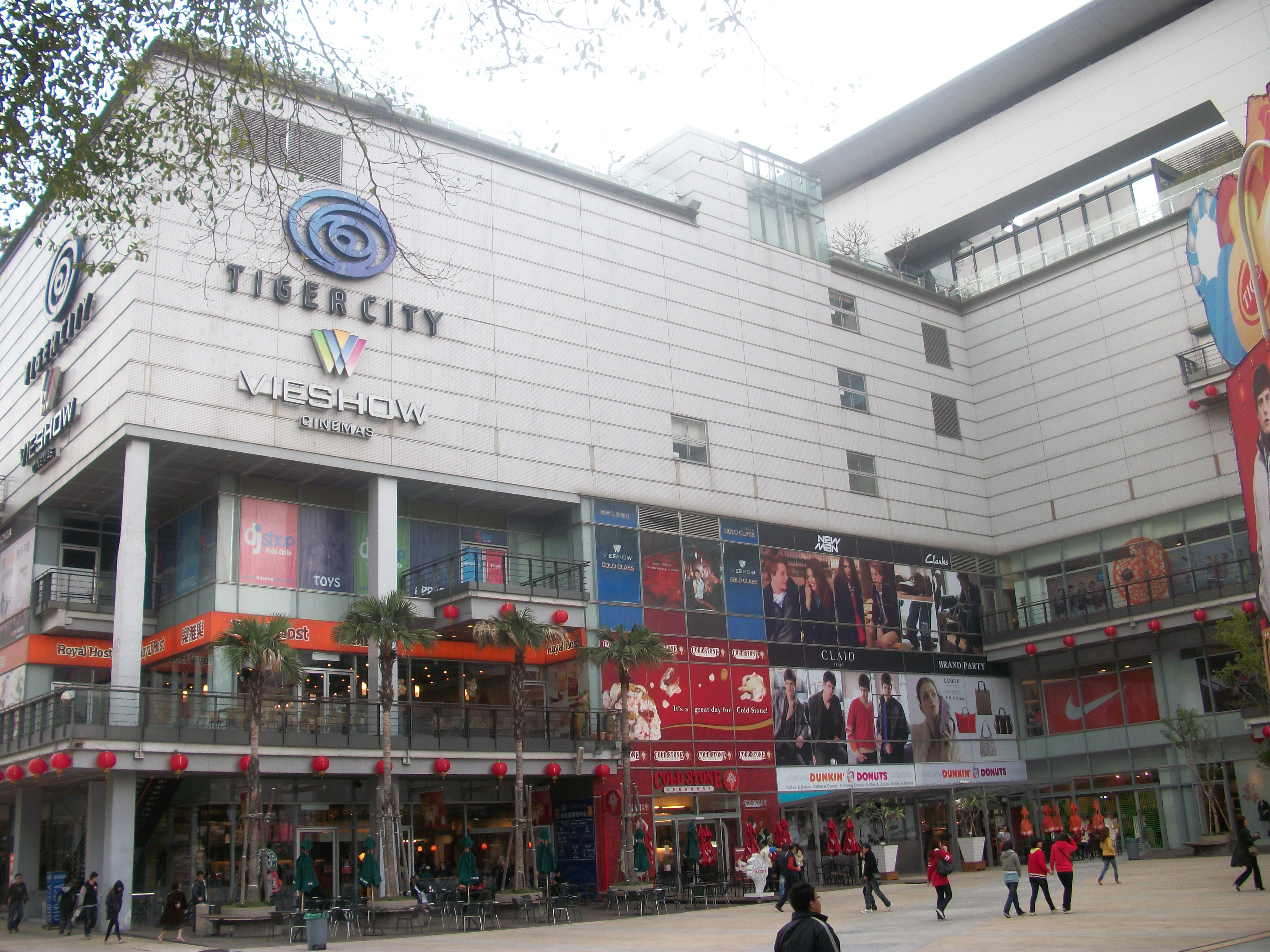 Tiger City at Henan Road in Taichung City,its a shopping mall.